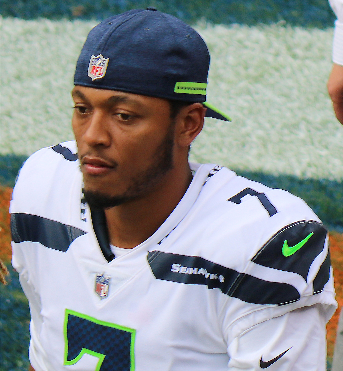 Brett Hundley, a National Football League player.